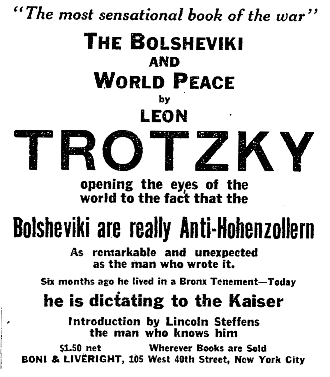 Advertisement